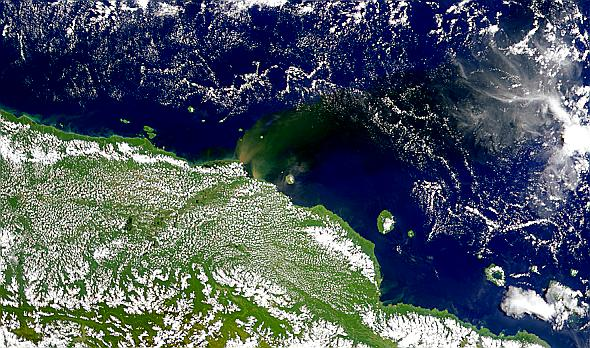 Sediment plumes from the Sepik and Ramu rivers of Papua New Guinea.